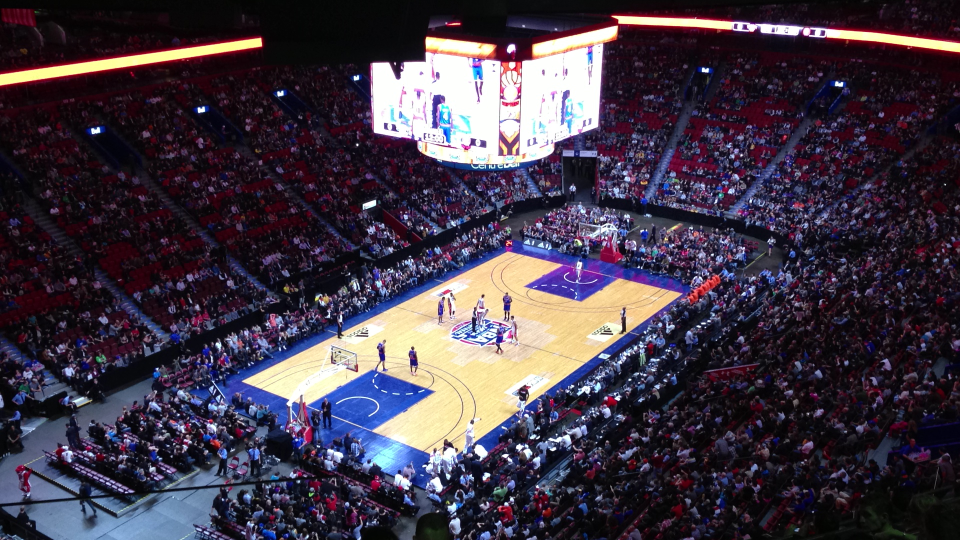 The Bell Centre in basketball configuration for an exhibition game of the Toronto Raptors vs. the New York Knicks on October 19, 2012.